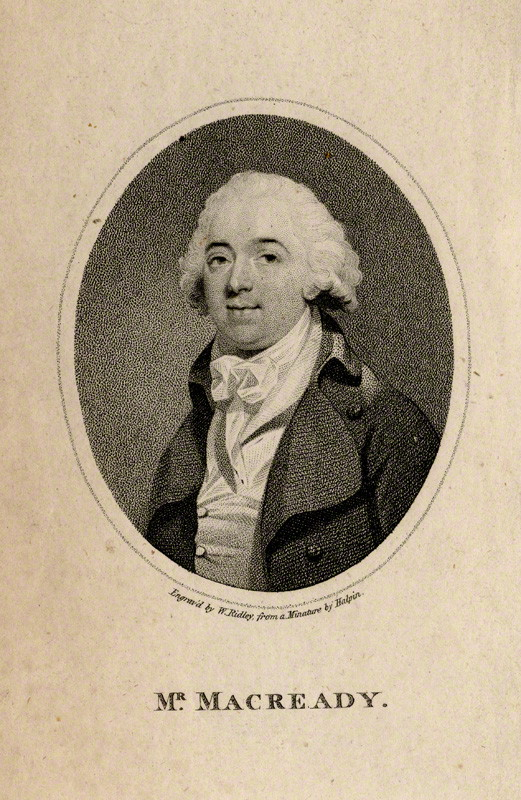 Portrait of William Macready the elder (1755–1829), Irish actor-manager.